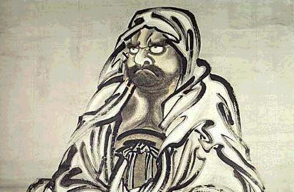 old painting of bodhidharma